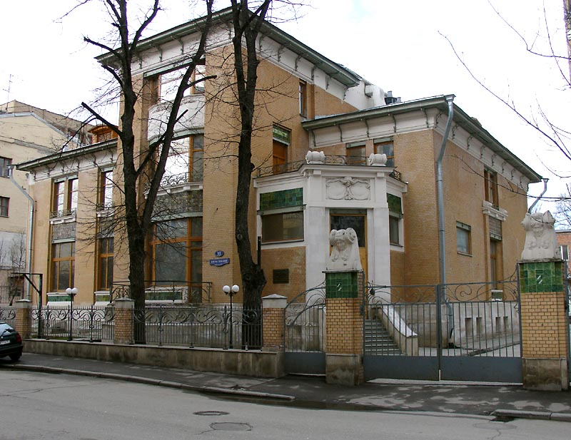 Yakunchikova House, 10 Prechistensky Lane, Moscow, Russia, architect: William Walcot